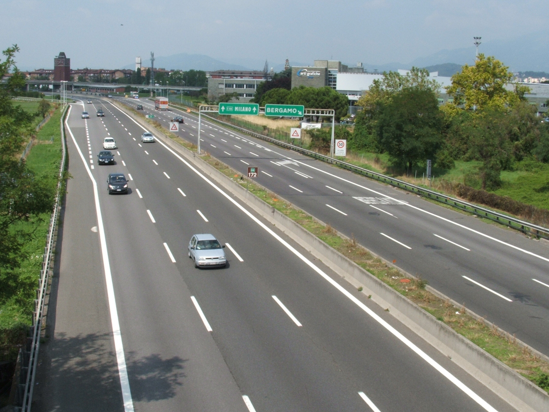 Highways A4 near Bergamo - Italy